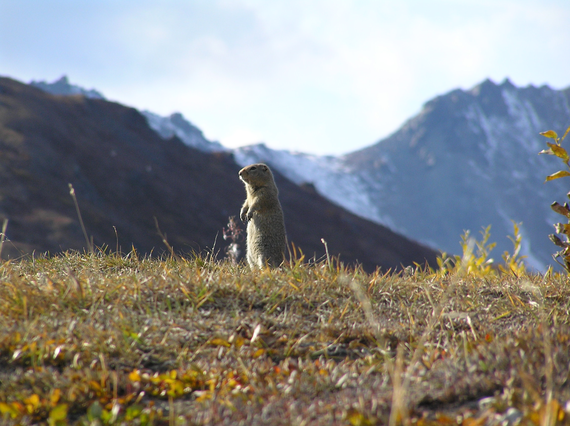 Arctic ground squirrel (Spermophilus parryii) on the top of Mount Healy, Alaska